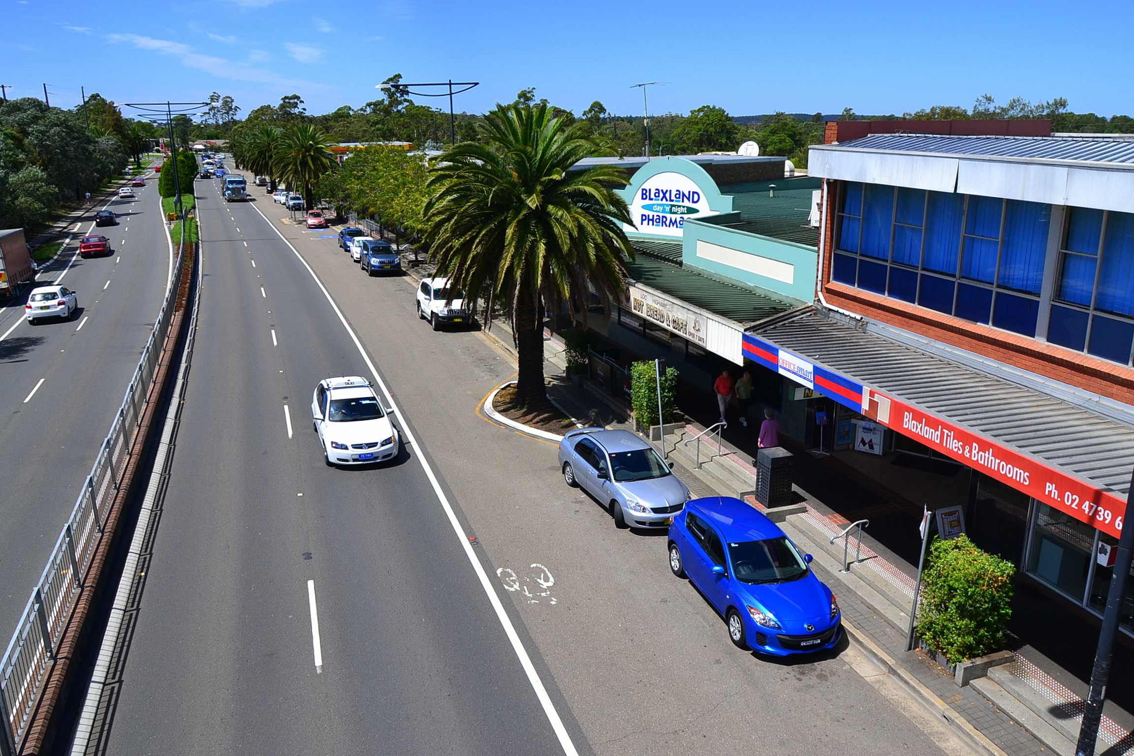 Blaxland, NSW, Australia